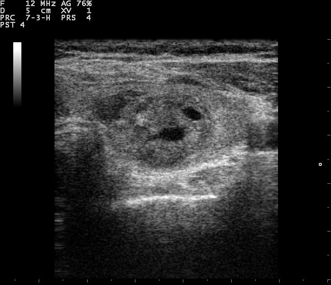 Ultrasound image of thyroid nodule